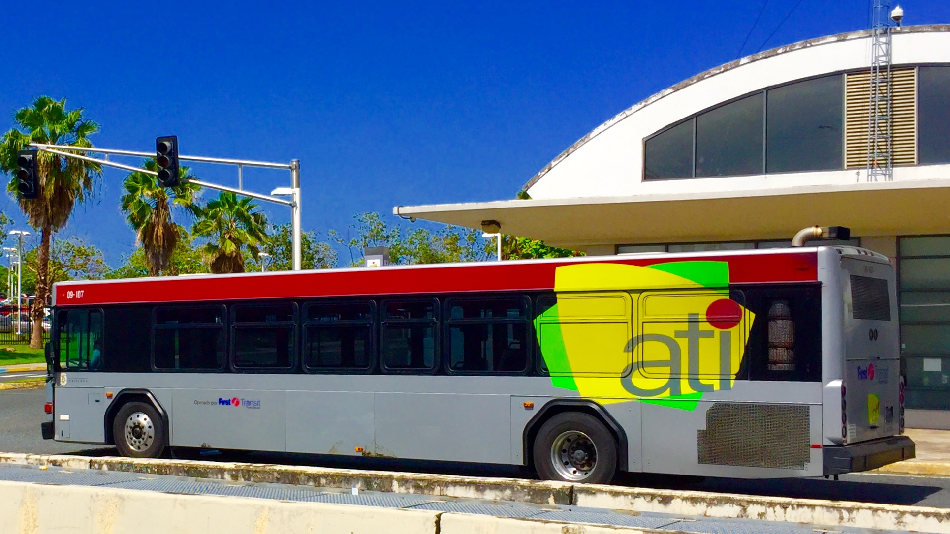 First Transit Commuter Bus Operation in San Juan, PR operates seven routes under contract for the Puerto Rico Metropolitan Bus Authority (AMA).